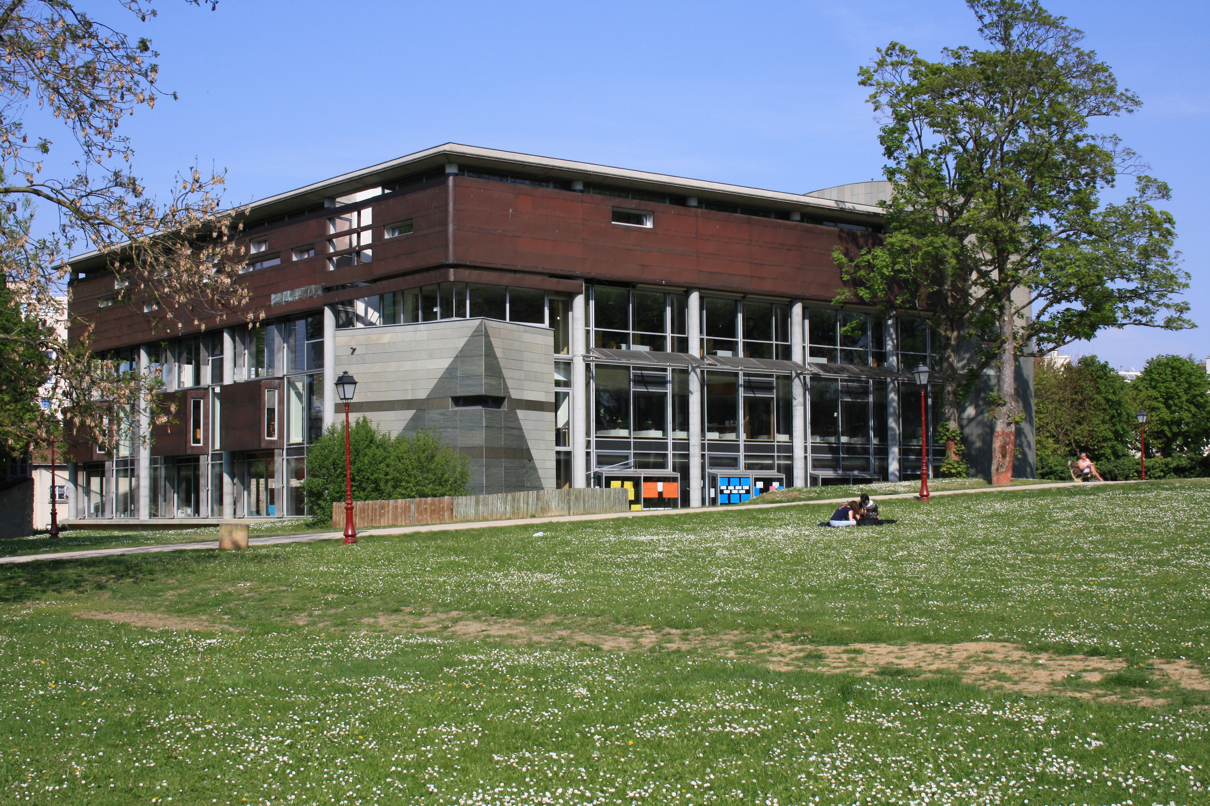 Park André Villette in Fresnes near Paris, France